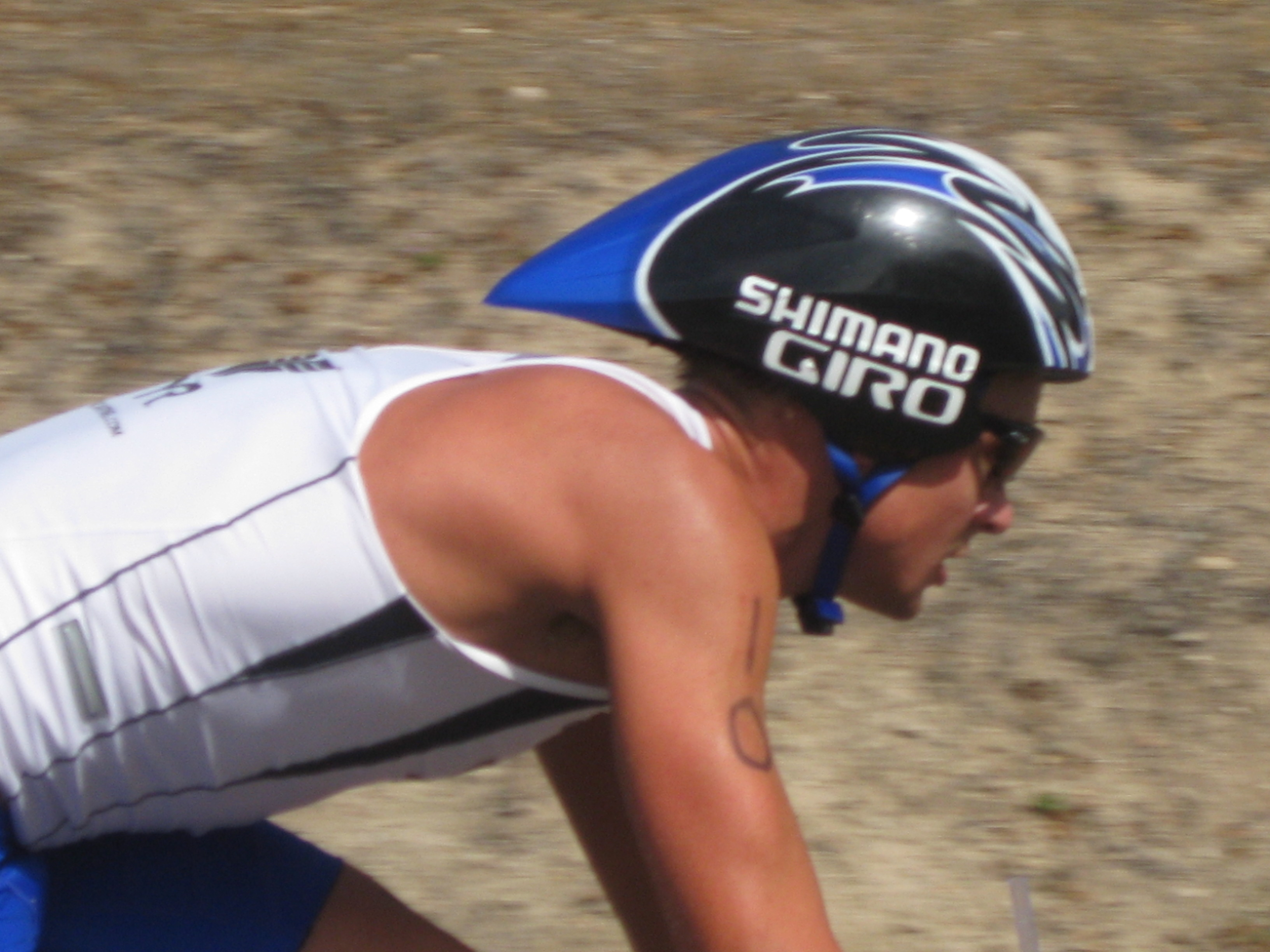 Fraser Cartmell at 2009 Wildflower Triathlon